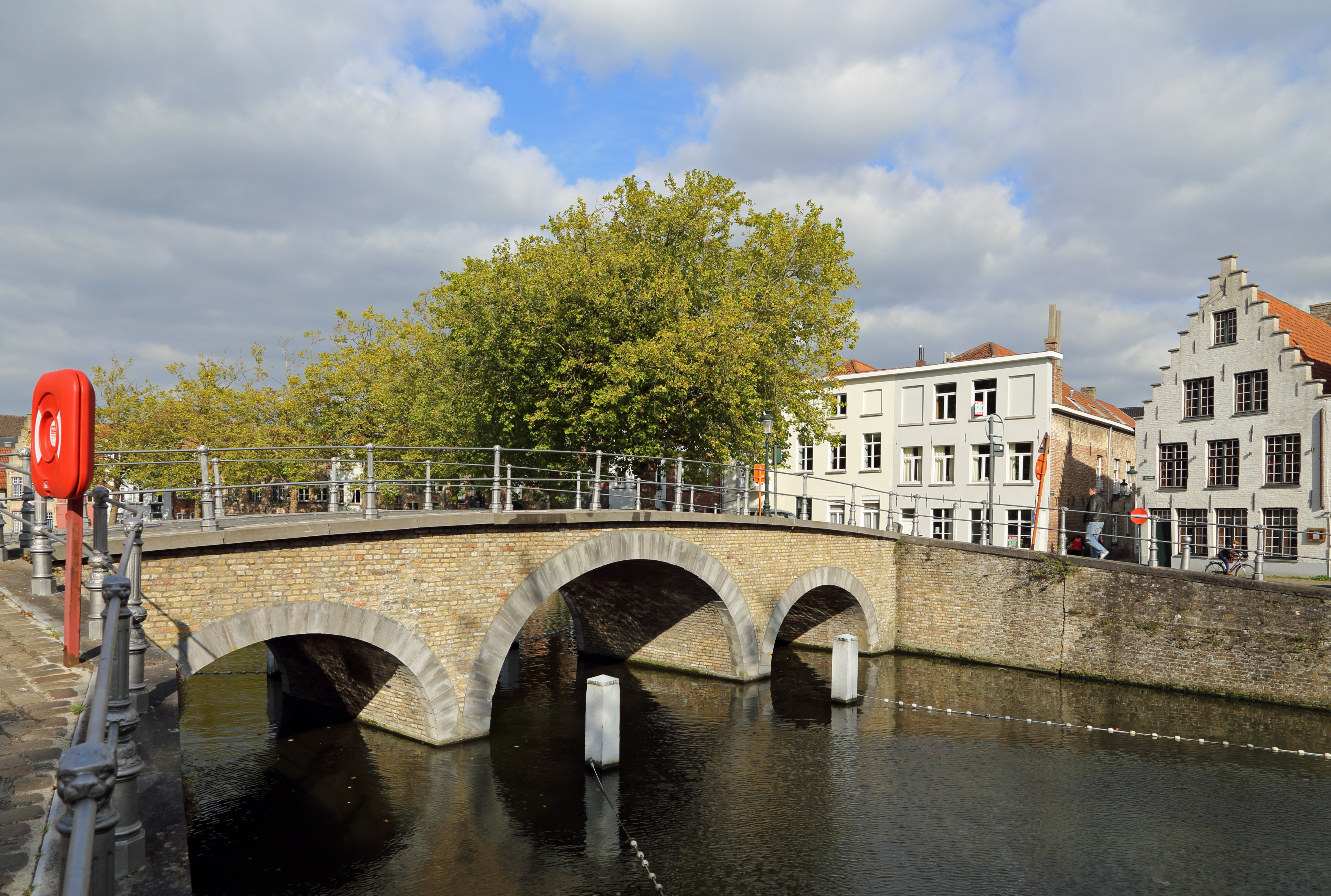 Bruges (Belgium): Snaggaard bridge